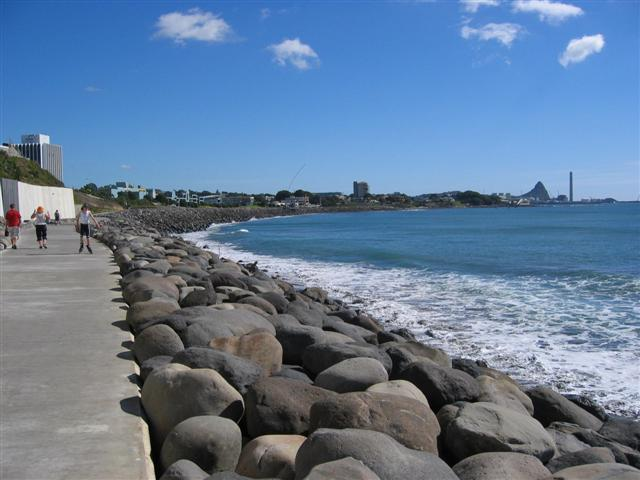 The coastal walkway in New Plymouth taken on a beautiful summers day in the city.